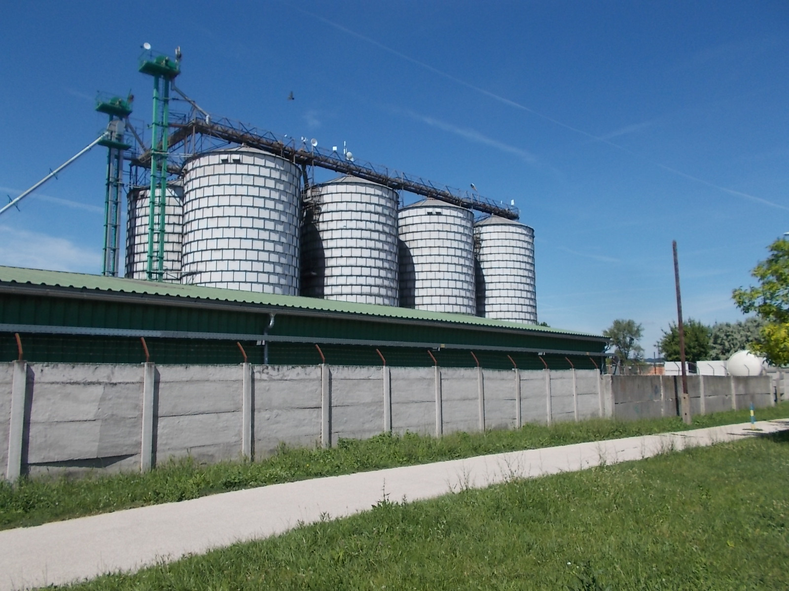 Aranka mill. - Szent István Street, Bicske, Fejér County, Hungary.